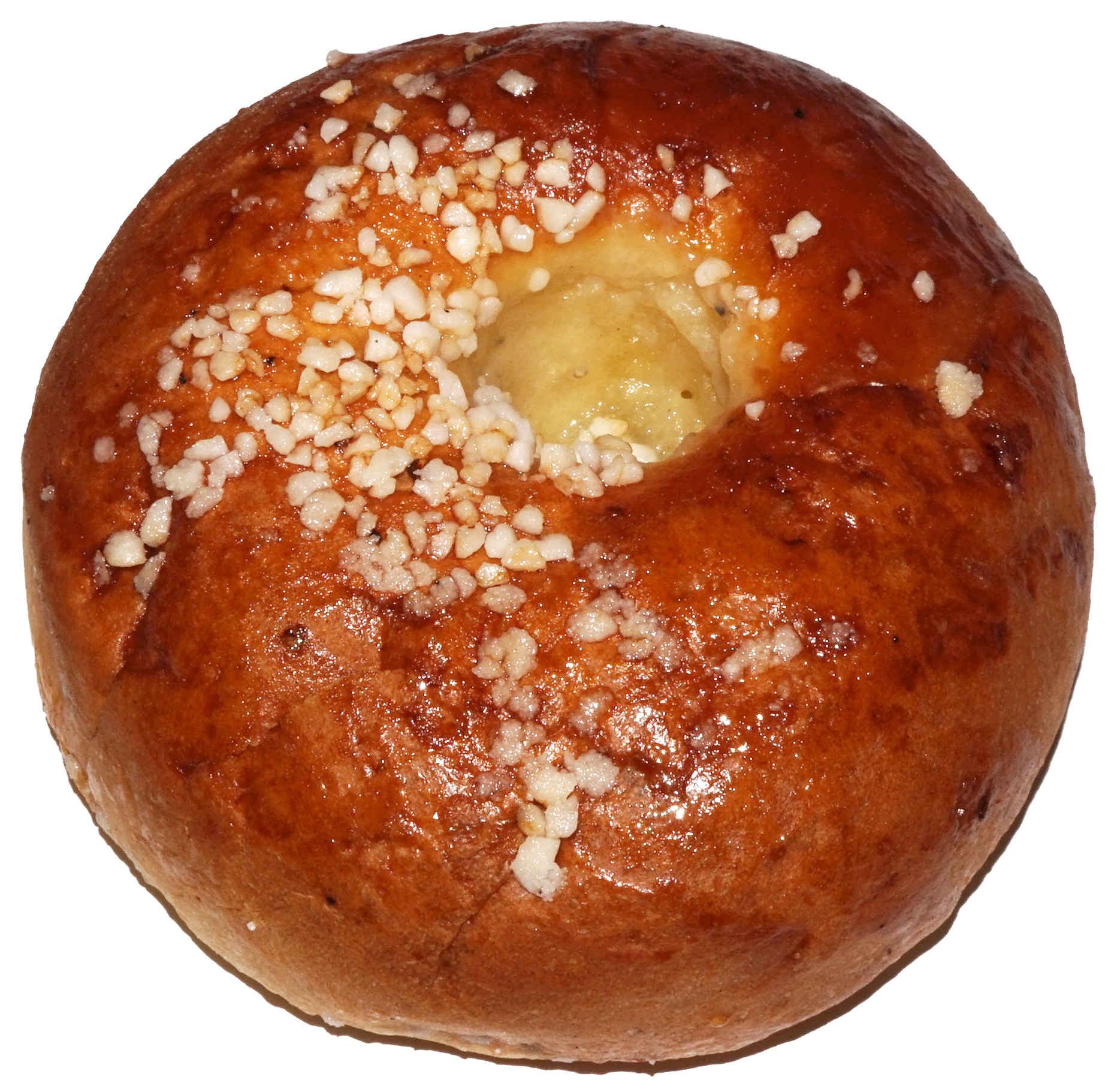 A butter and sugar bun. Made by the bakery Jyväs Pakari.